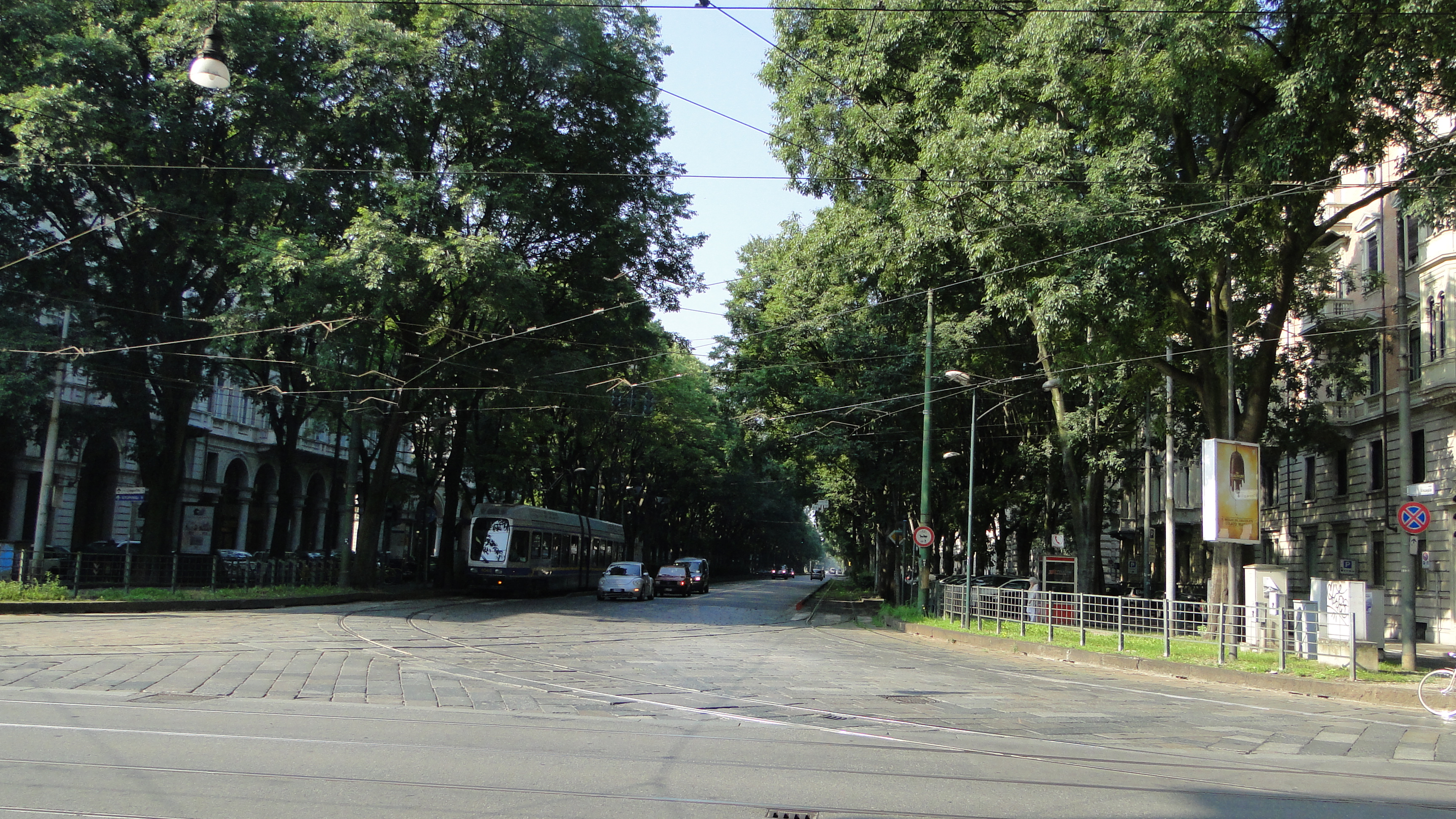 Turin (Italy)- Vinzaglio Avenue